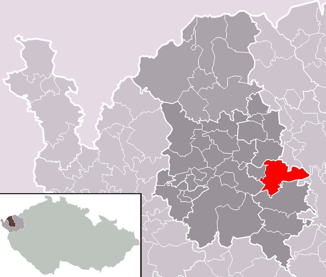 Location of Loker town within Sokolov District and administrative area of Sokolov as a Municipality with Extended Competence.